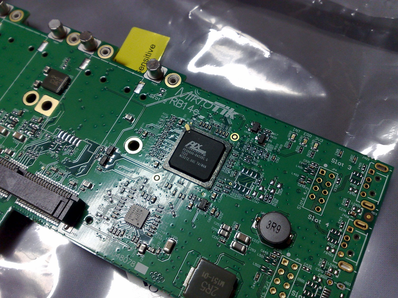 Close-up of a RouterBOARD RB14e, a PCI Express ×1 card; it contains a PLX Technology PEX8606 PCI Express switch that makes it possible to use up to four PCI Express Mini Cards in a single slot, sharing the same PCI Express endpoint